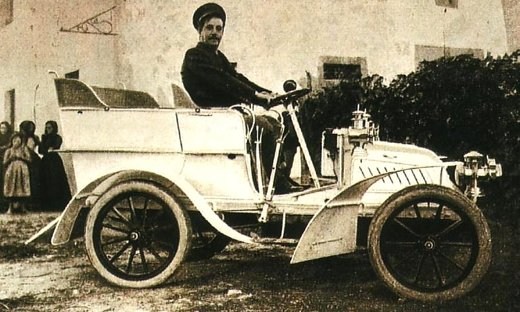 Giacomo Puccini behind the wheel of a de Dion-Bouton "Populaire" tonneau, c. 1902